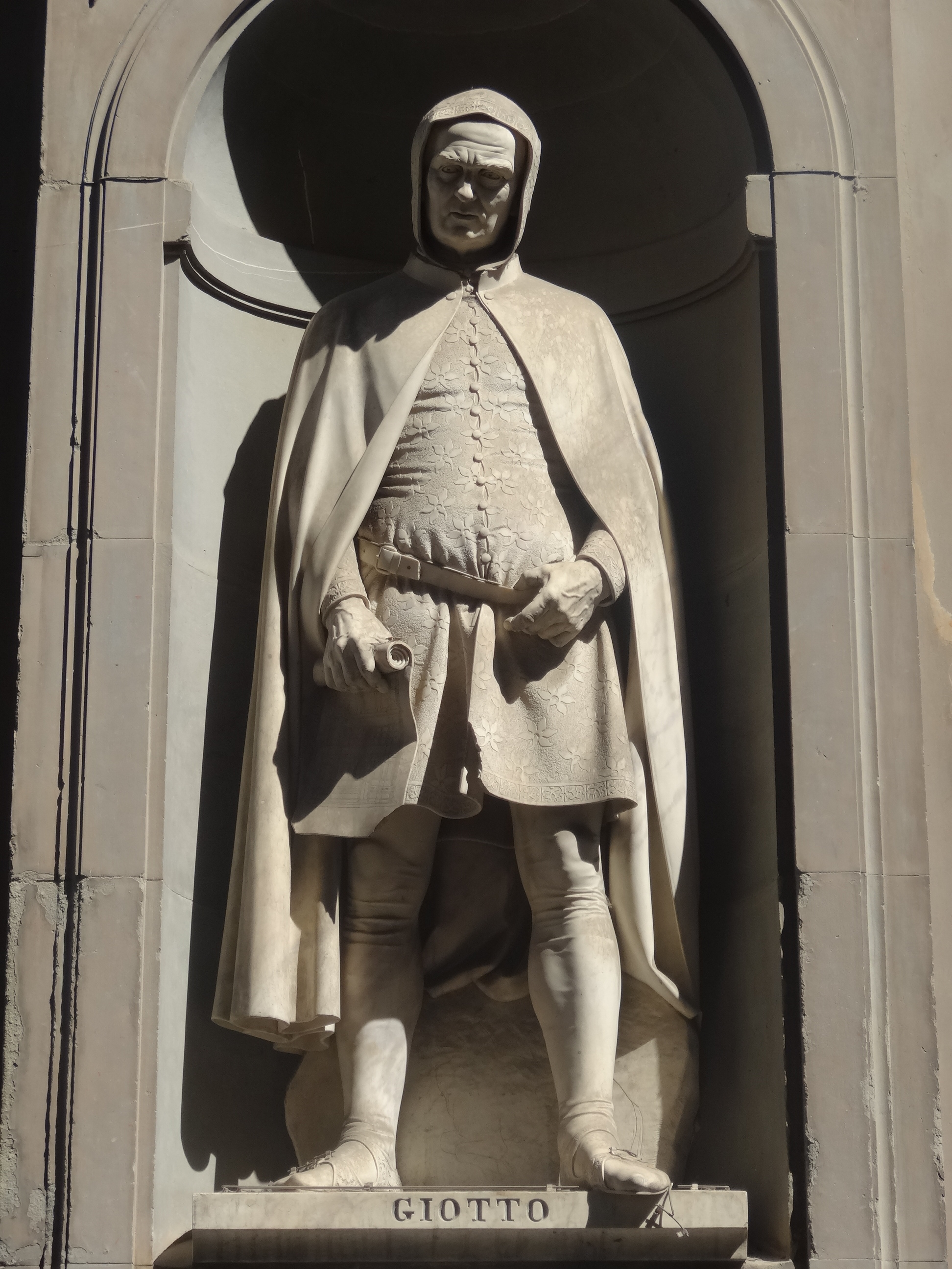 Uffizi - Statues of the Great Florentines